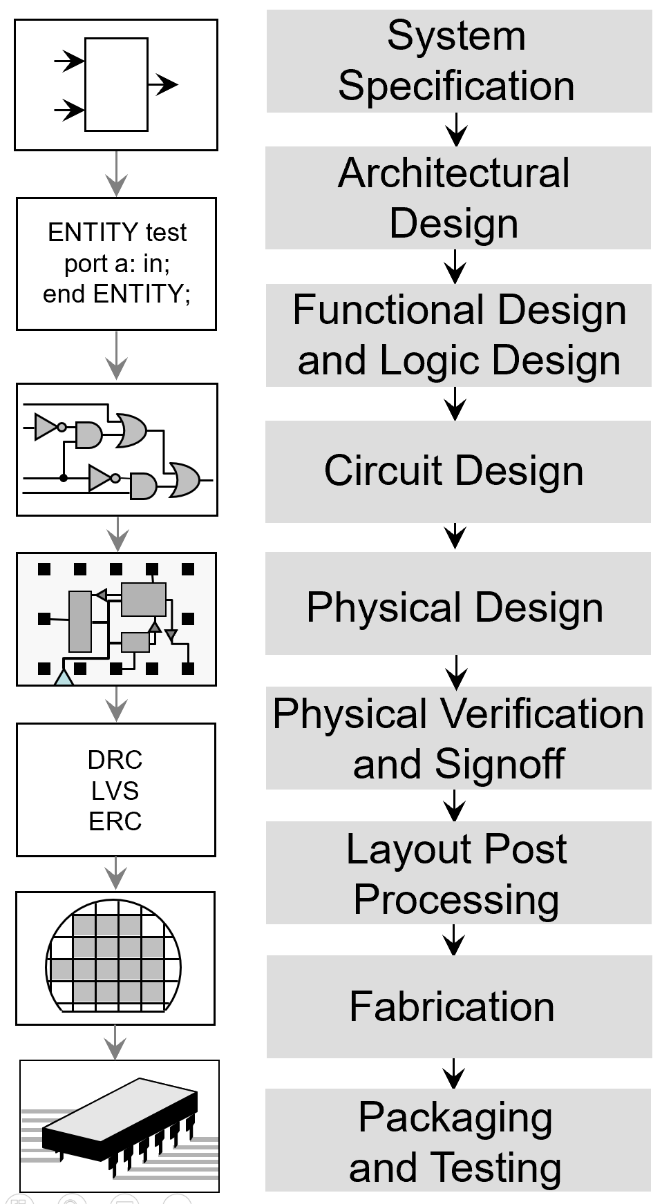 Major steps in the VLSI circuit design flow